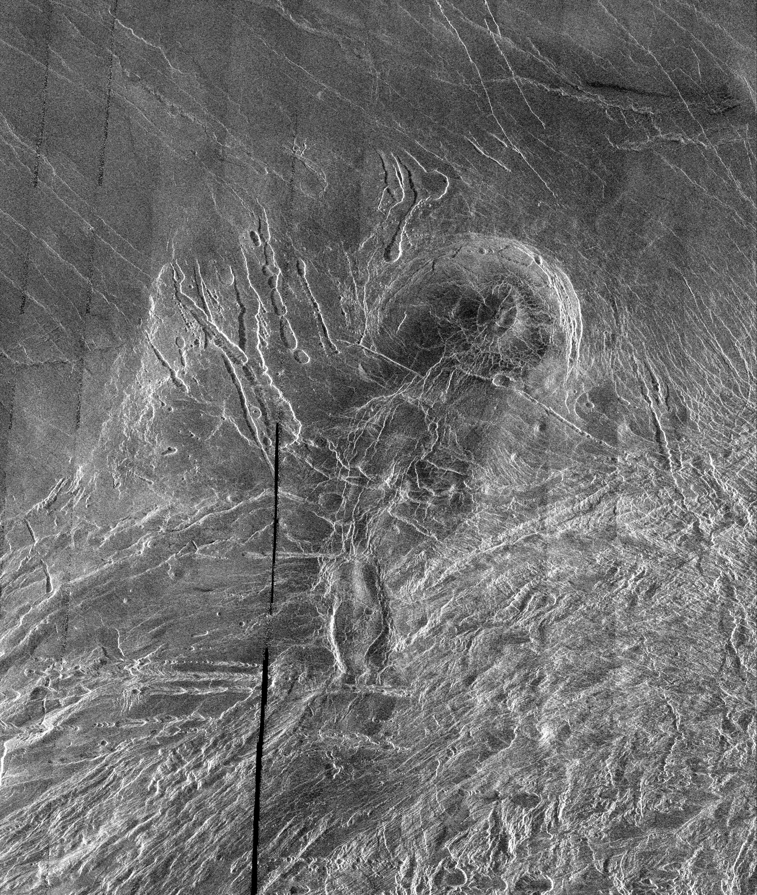 This image is a full-resolution mosaic of several Magellan images and is centered at 61 degrees north latitude and 341 degrees east longitude. The image is 250 kilometers wide (150 miles). The radar smooth region in the northern part of the image is Lakshmi Planum, a high plateau region roughly 3.5 kilometers (2.2 miles) above the mean planetary radius. Lakshmi Planum is ringed by intensely deformed terrain, some of which is shown in the southern portion of the image and is called Clotho Tessera. The 64-kilometer (40 mile) diameter circular feature in the image is a depression called Siddons and may be a volcanic caldera. This view is supported by the collapsed lava tubes surrounding the feature. By carefully studying this and other surrounding images scientists hope to discover what tectonic and volcanic processes formed this complex region. The solid black parts of the image represent data gaps that may be filled in by the Magellan extended mission.